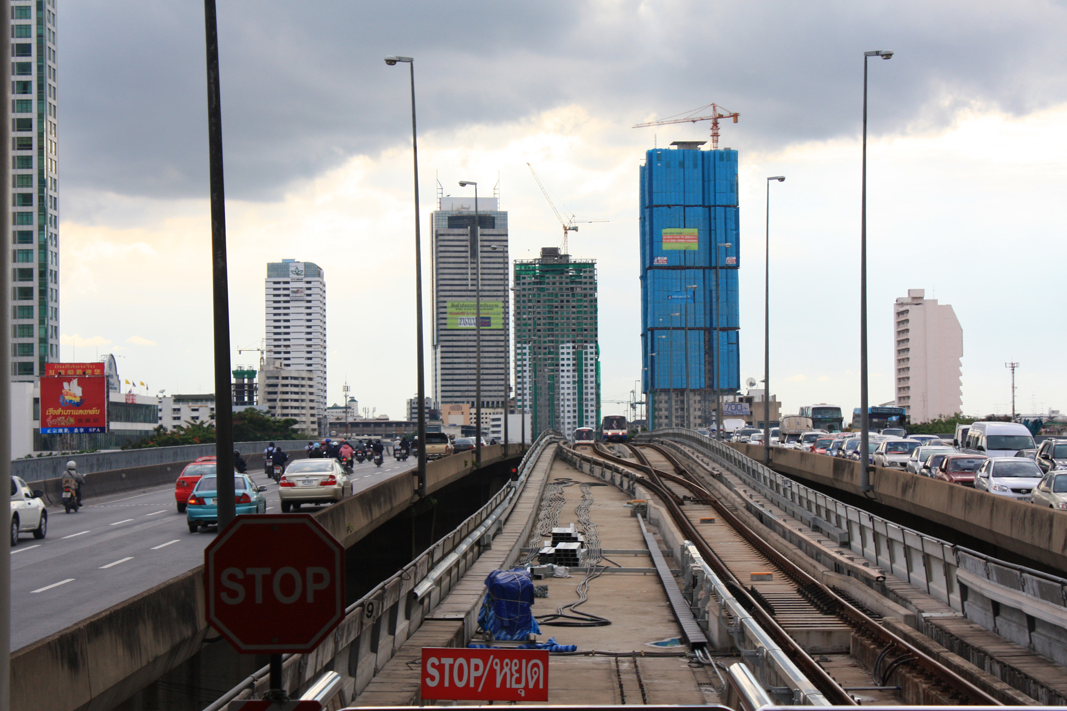 BTS Saphan Taksin Station, Bangkok, Thailand.